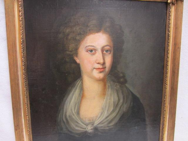 Wife of Georg Melchior Weber, the father of Georg Michael Ritter von Weber